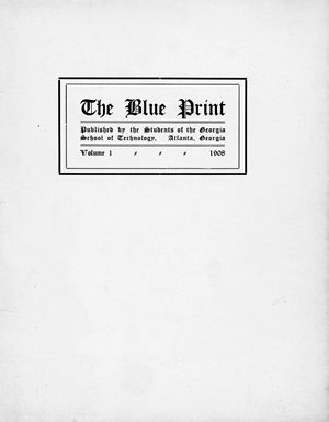 Subject: The 1908 Blueprint on